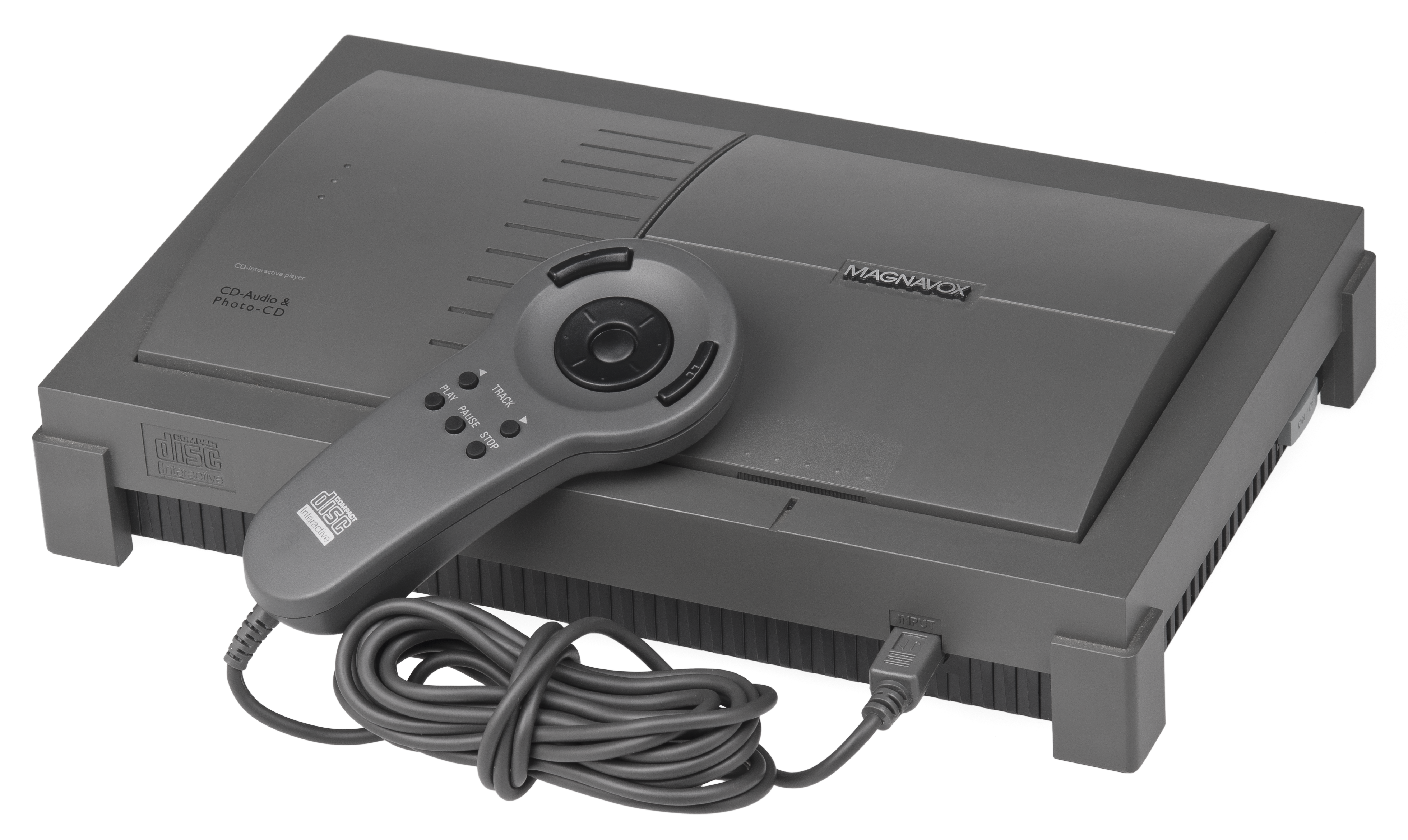 A Philips CDi console, branded as a Magnavox, with controller. This is possibly a 400 series model, though I didn't think to check specifically at the time.